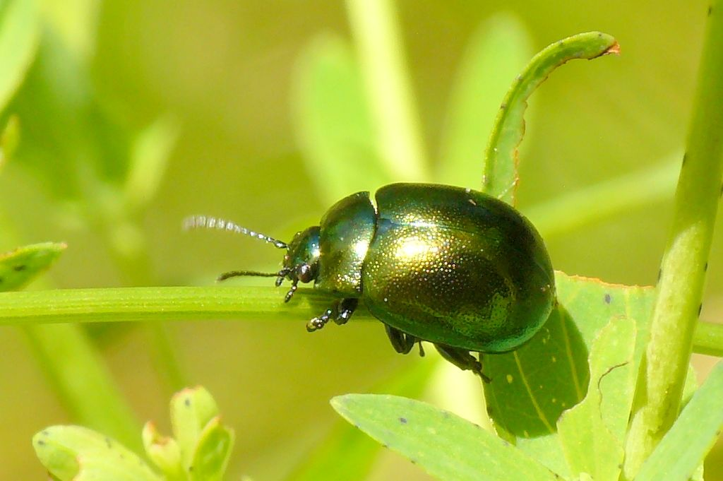 Chrysolina varians